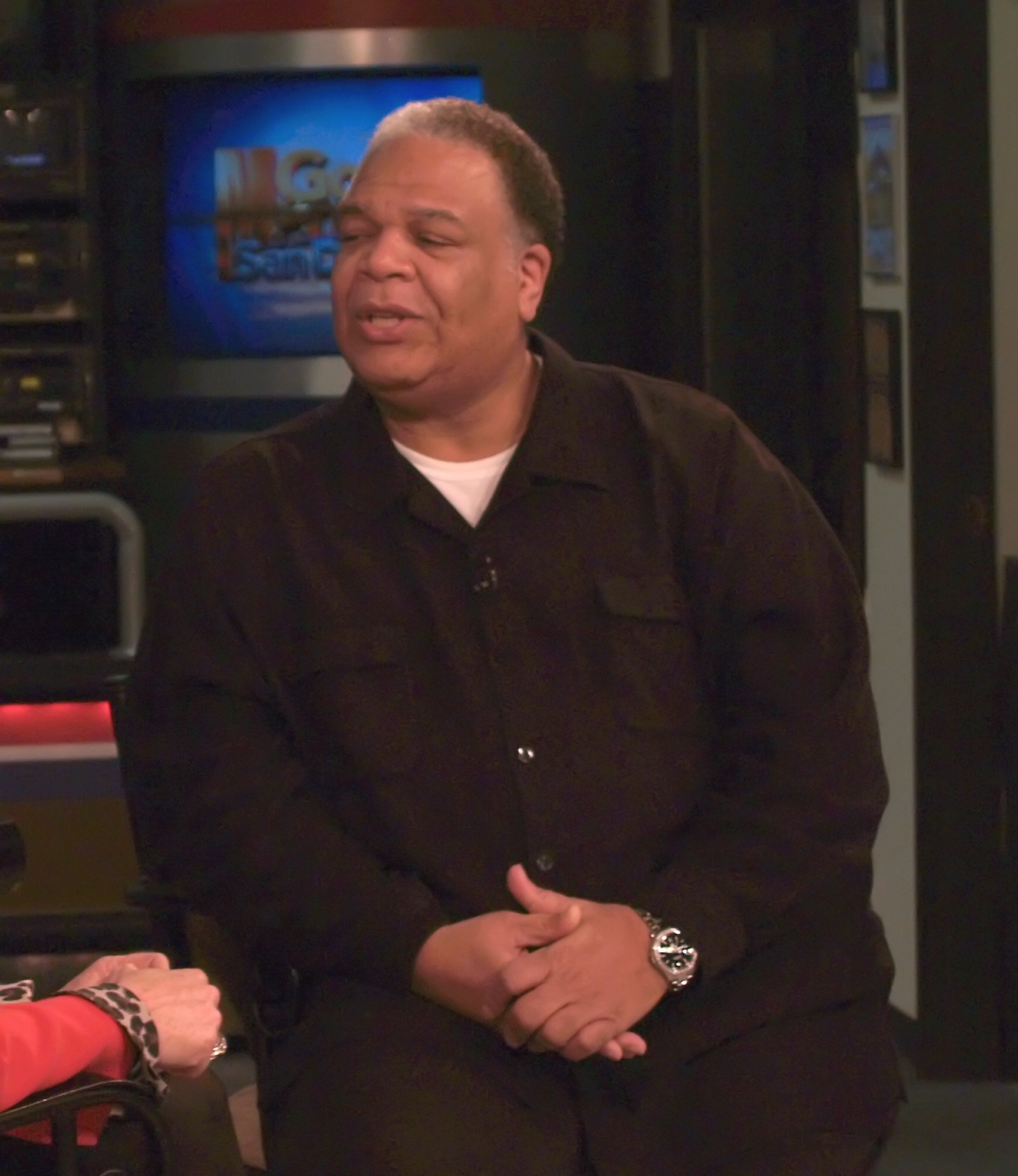 I personally took this photo of Ken Page while he was in San Diego